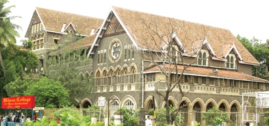 The Wilson College at Girgaum Chowpatty, Mumbai.